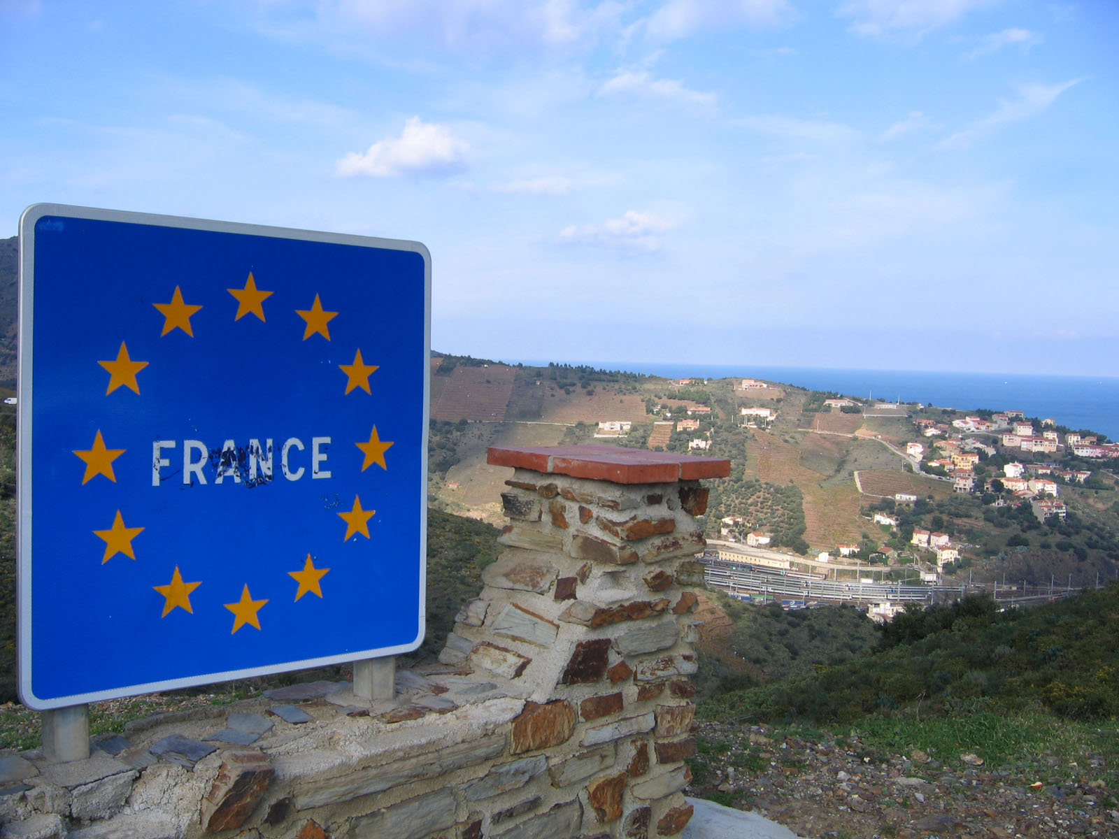 Balistres Pass on the French-Spanish border (looking towards Cerbère)